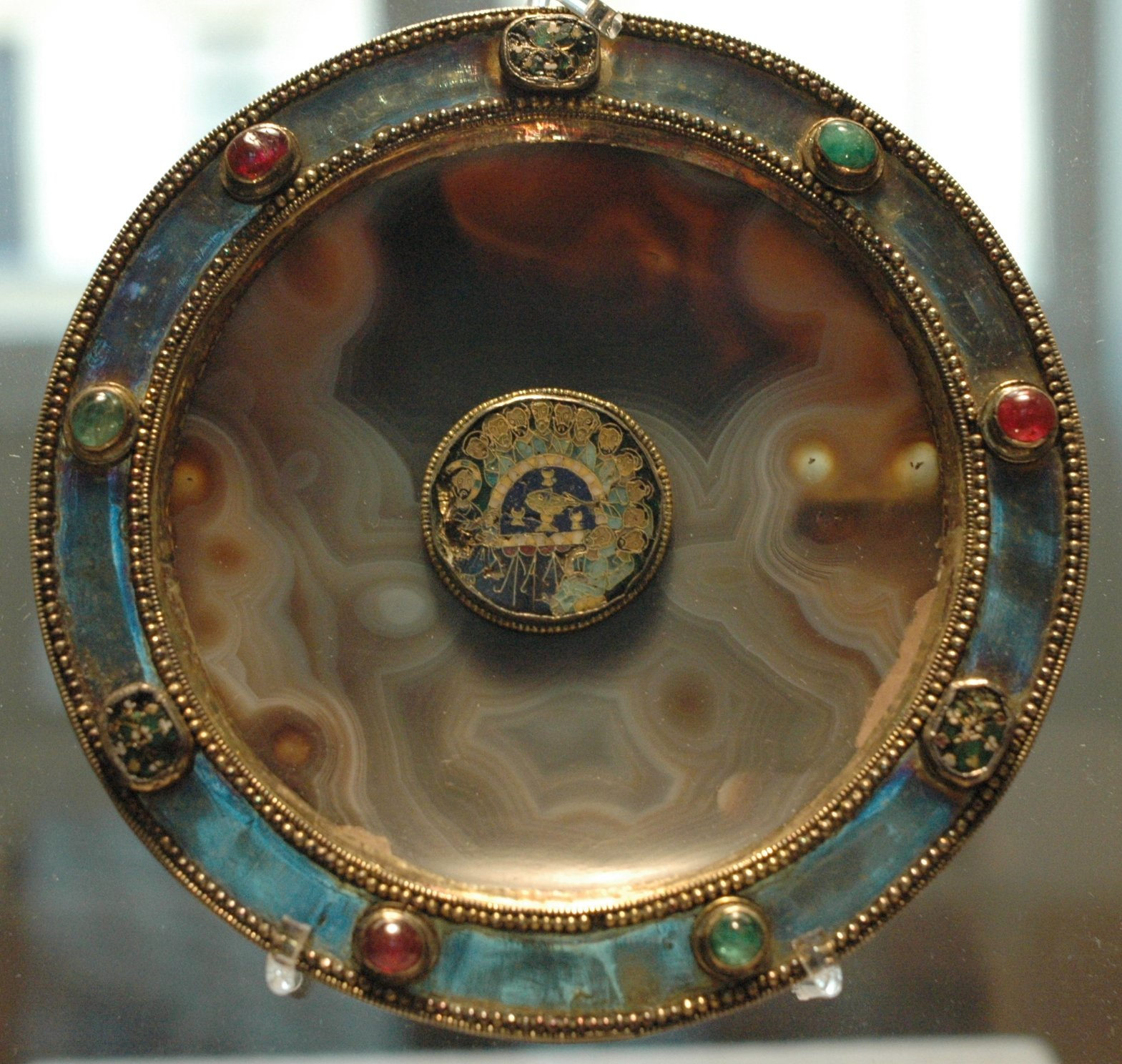 Paten, pietre dure: sard (6th–7th c.), enamel (Constantinople, late 9th–early 10th c.), setting (Constantinople, idem) and plique-à-jour enamel (Paris, ca. 1300), gilded silver and copper.